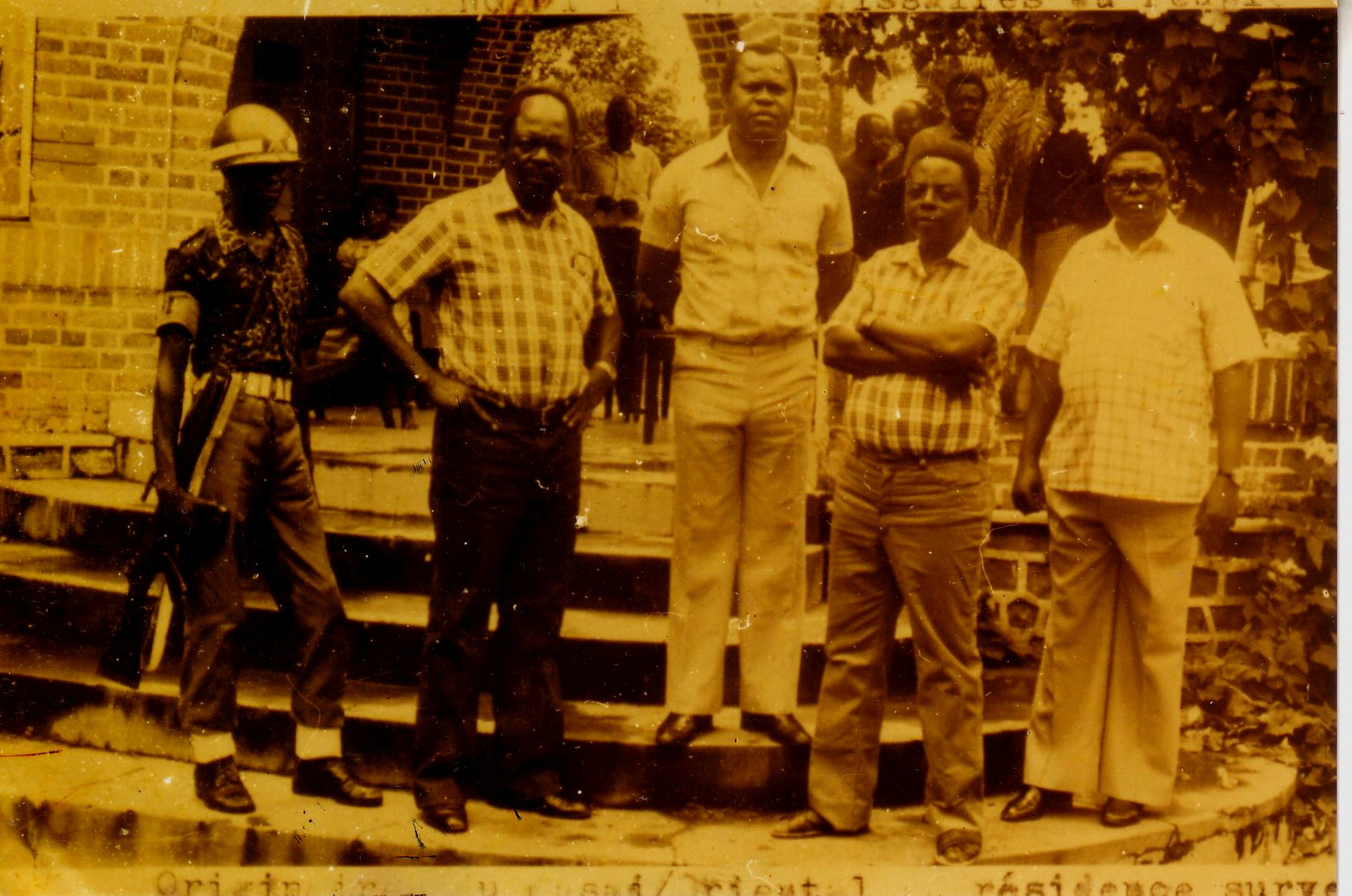 Makanda Mpinga, Étienne Tshisekedi, Joseph Ngalula, and Kanana Tshongo being detained by one of Mobutu's soldiers